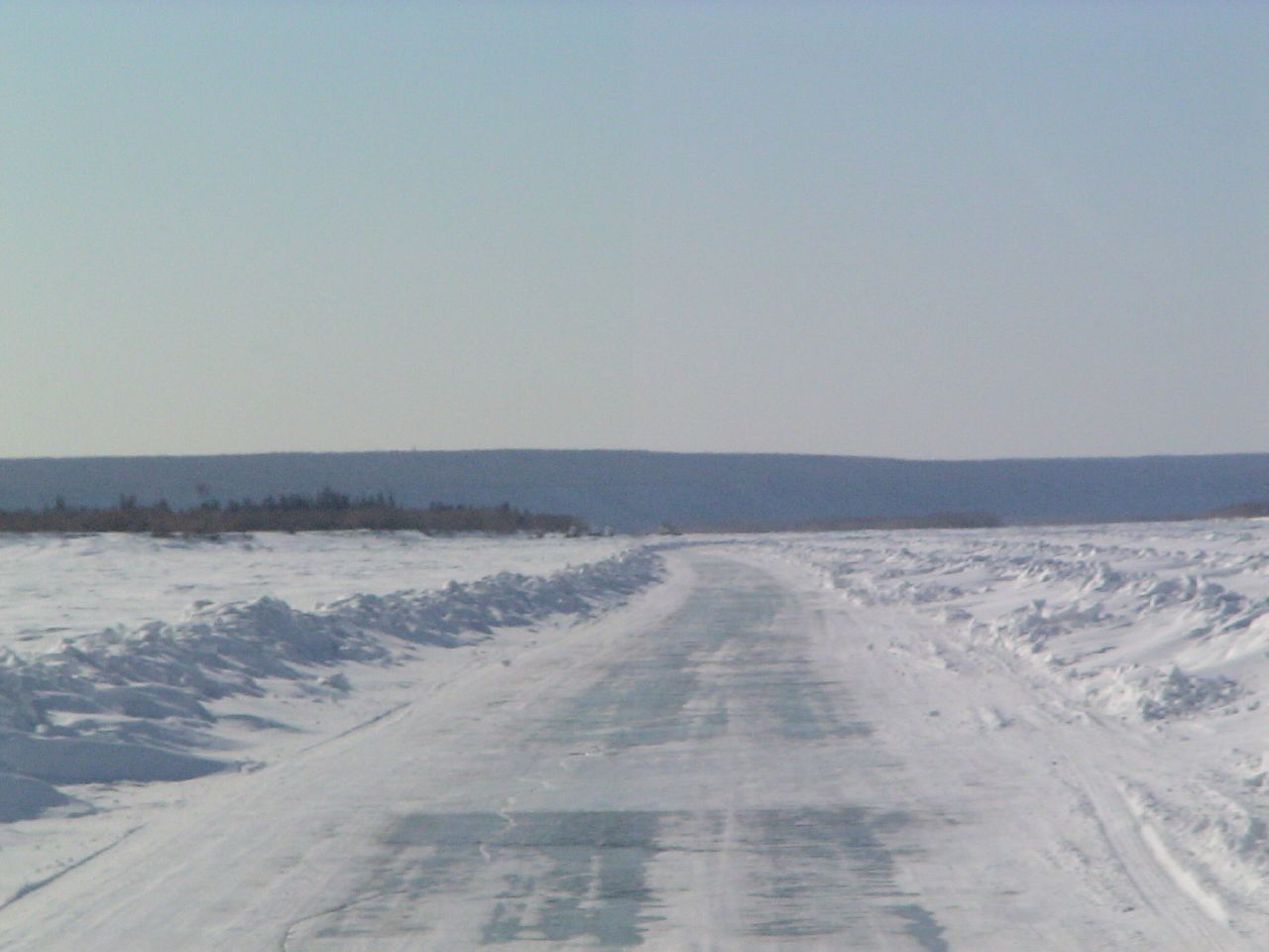 When you pass over you do not have the sensation that you are crossing a river of 5-7 kilometers in width (at this point): There are potholes, small mounds as frozen waves, crossings of highways and road signs